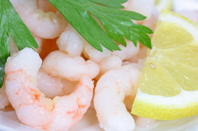 Shelled or peeled northern shrimp, Pandalus borealis, ready for eating